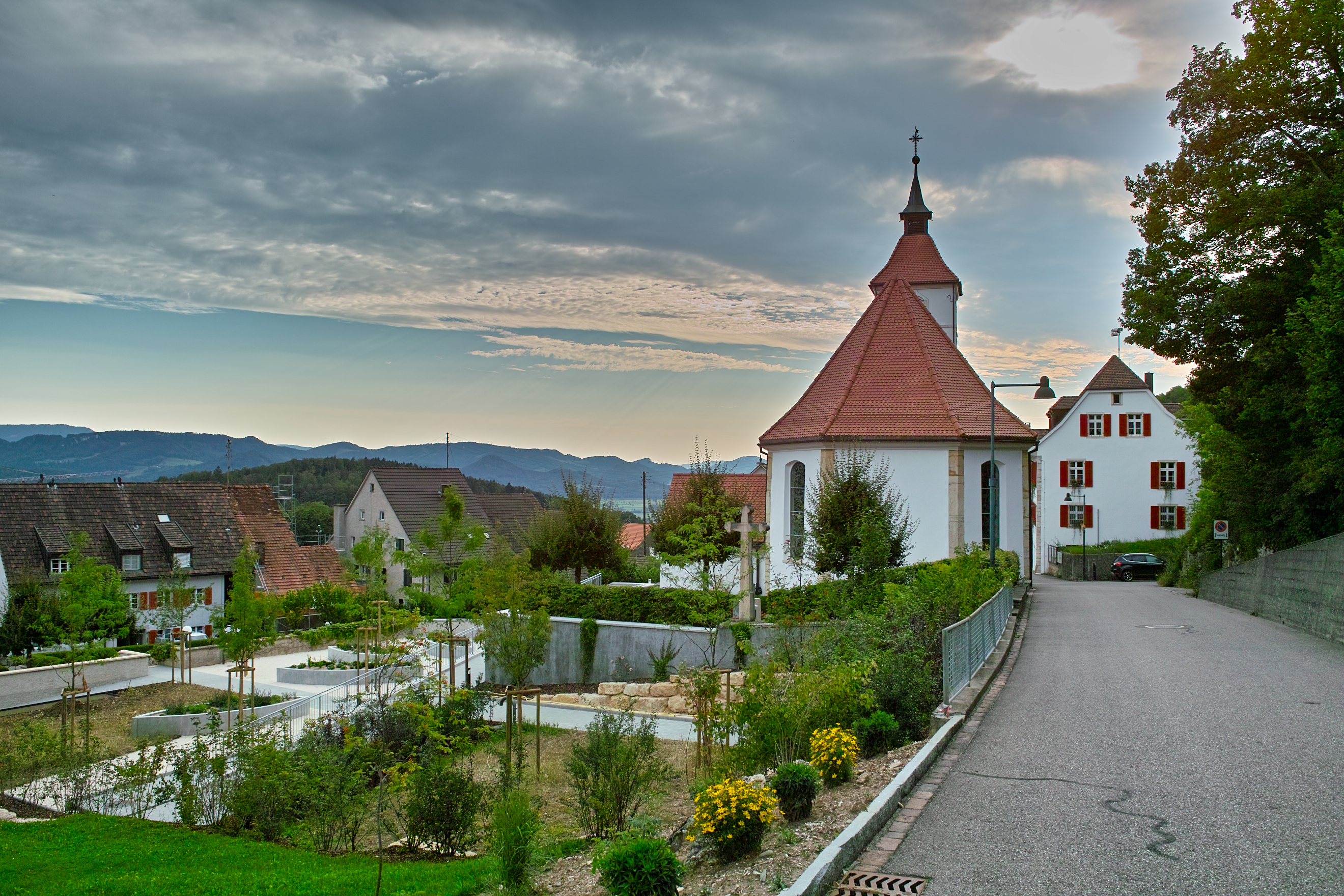 Himmelried, canton of Solothurn, Switzerland. Version with stronger colours.